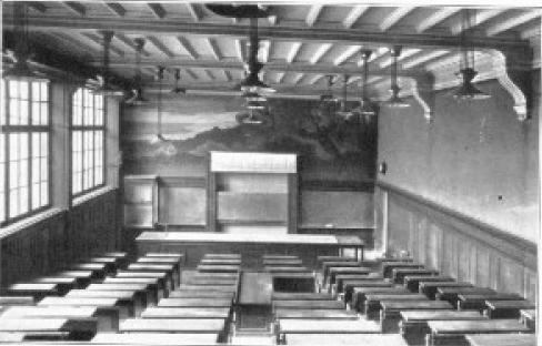 Cauchy amphitheatre of the faculty of sciences of the university of Paris at the Sorbonne